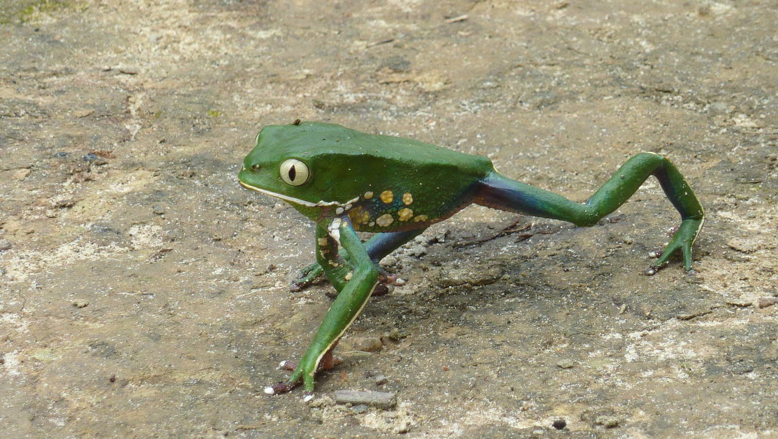 Phyllomedusa bahiana. This photo was taken on June 18, 2010 in Entre Rios, Bahia, BR, using a Panasonic DMC-ZS3.